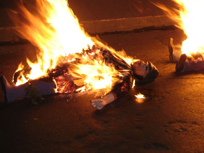 Old Year Puppet Burning, New Year's Eve day in Pasto, Colombia